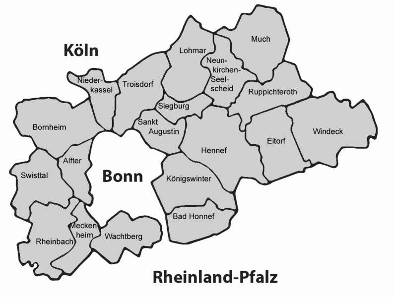 Map of the political geography of Rhein-Sieg-Kreis in North Rhine-Westphalia, made by using image Rsk gesamt.png by Sozi.